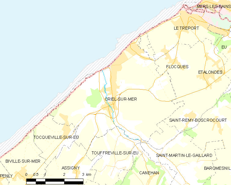 Map of French municipality Criel-sur-Mer